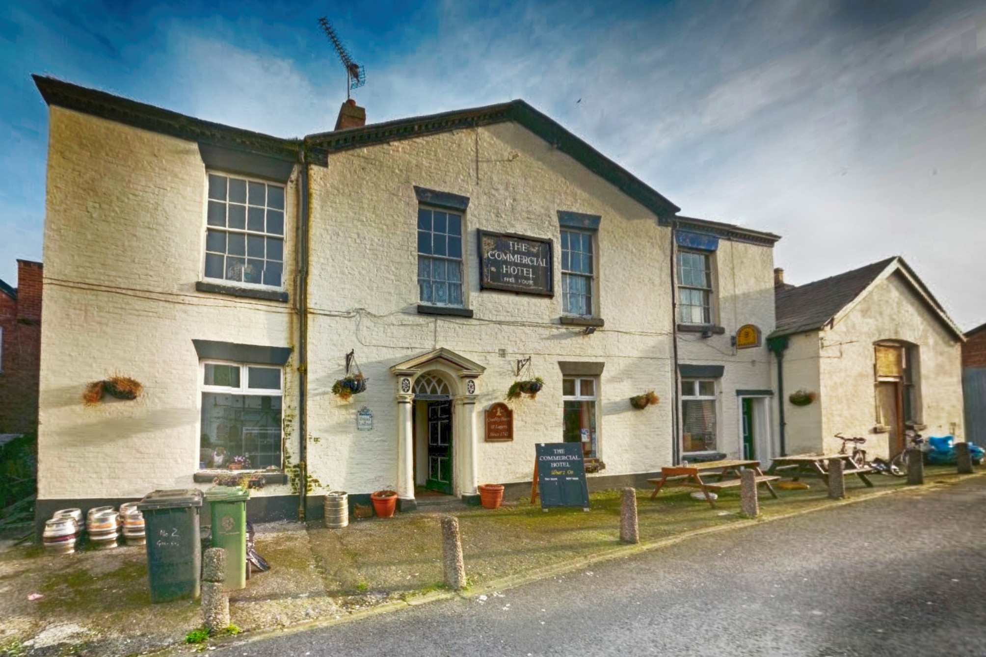 Commercial Hotel Wheelock, a Grade II public house in Wheelock in the parish of Sandbach. See also "Listed buildings in Sandbach"